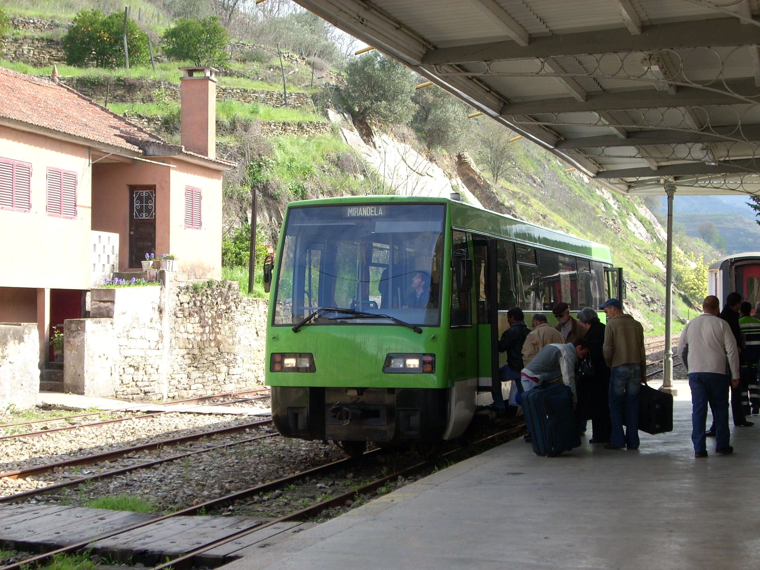 Train of the Linha do Tua railway at Tua train station, Tua, Portugal